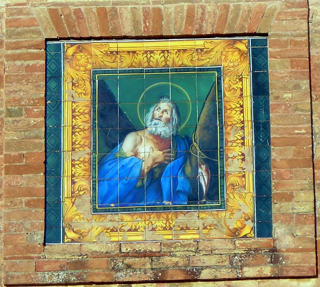 the saint on facade, church of St Andrea d'Agliano, Perugia, Umbria, Italy